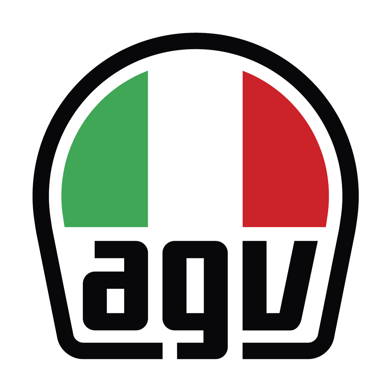 Logo AGV